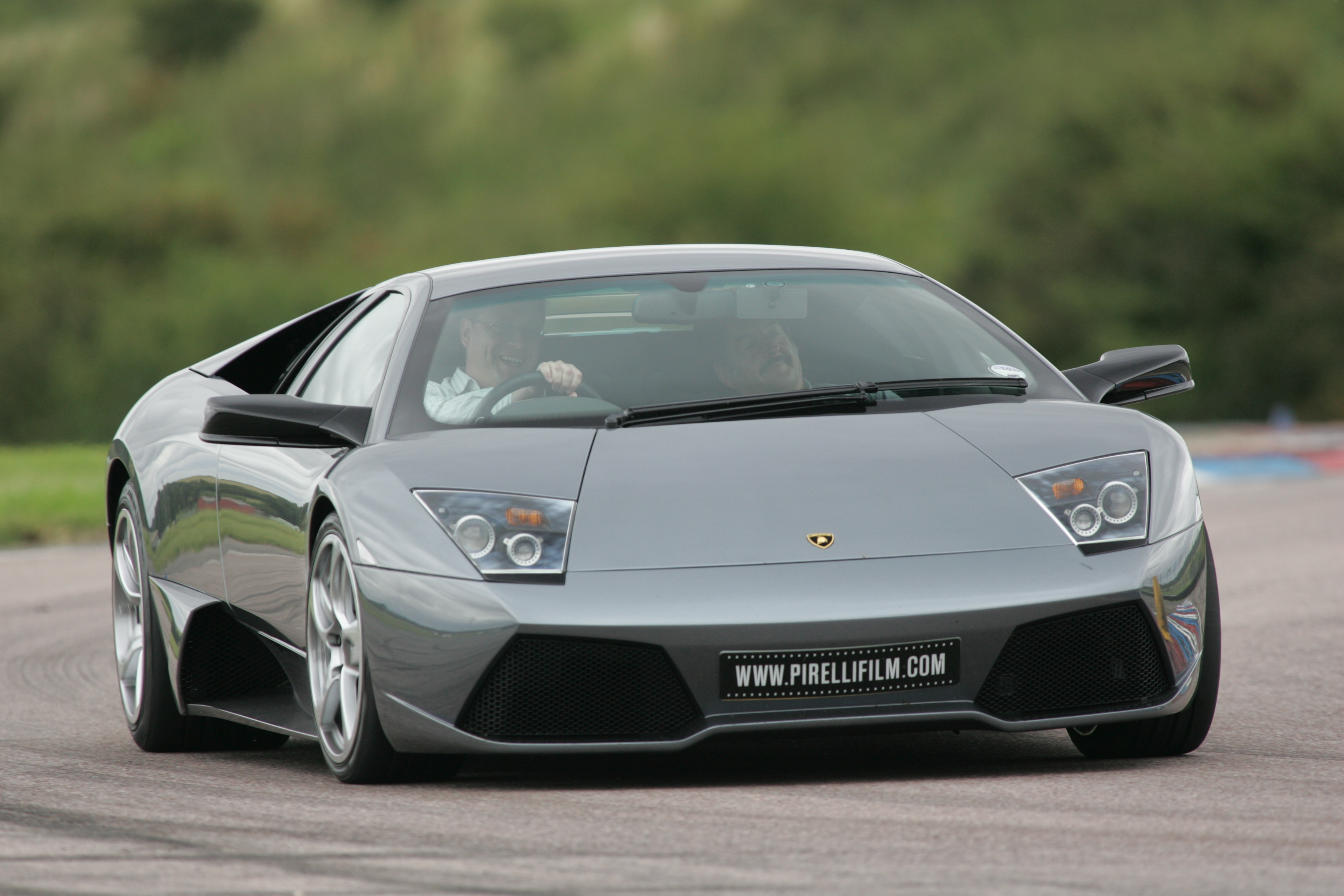 A grey Murcielago being taken around the track